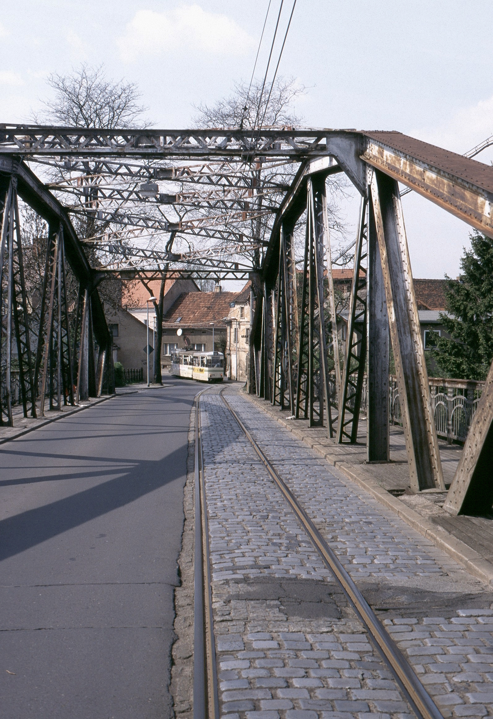 Tramway in Plaue